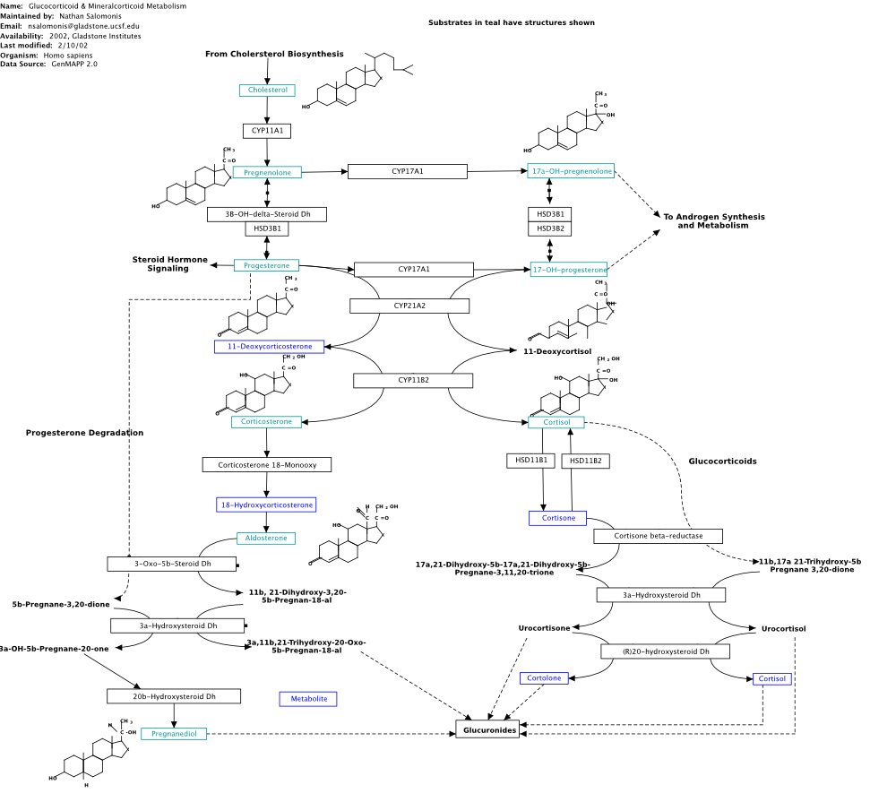 Synthesis and degradation of glucocorticoids and mineralocorticoids.